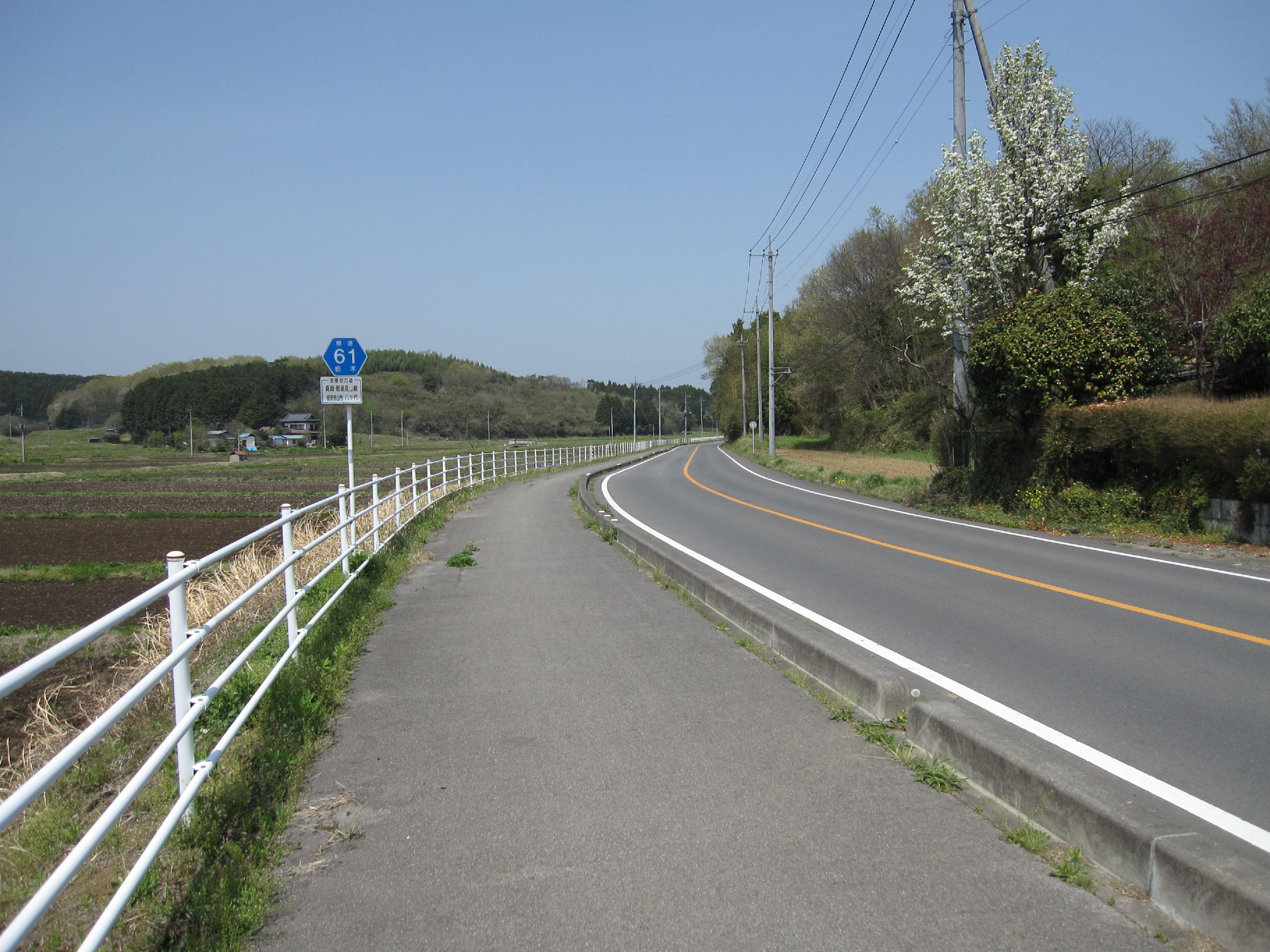 The Tochigi Prefectural Road Route 61 in Yakashiro, Nasukarasuyama City